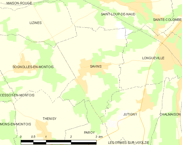 Map of French municipality Savins